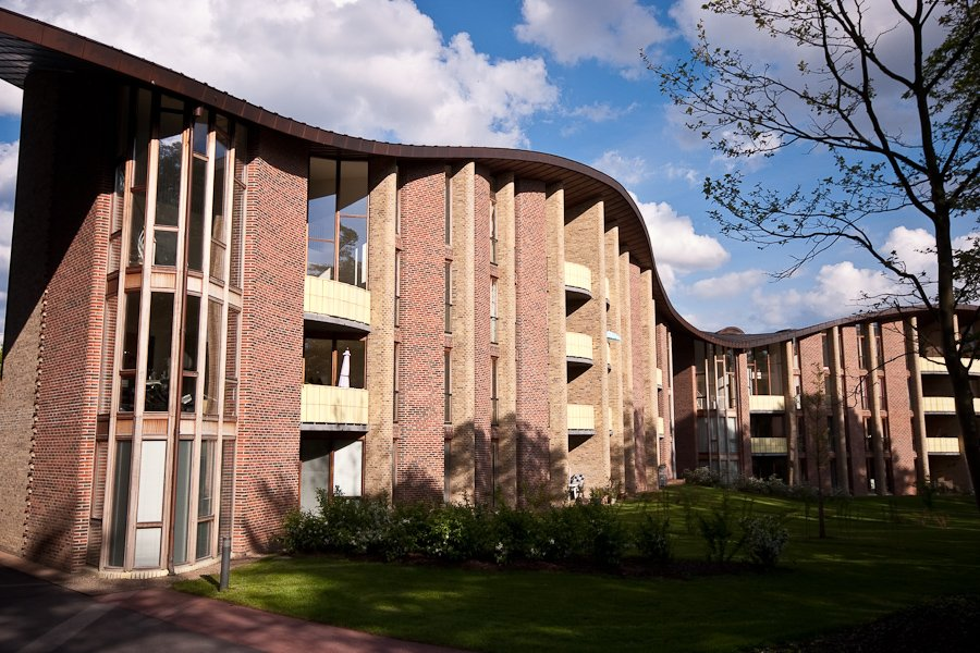 Bispebjerg Bakke, Copenhagen, Denmark. A building complex designed in colaboration with danish artist Bjørn Nørgård.